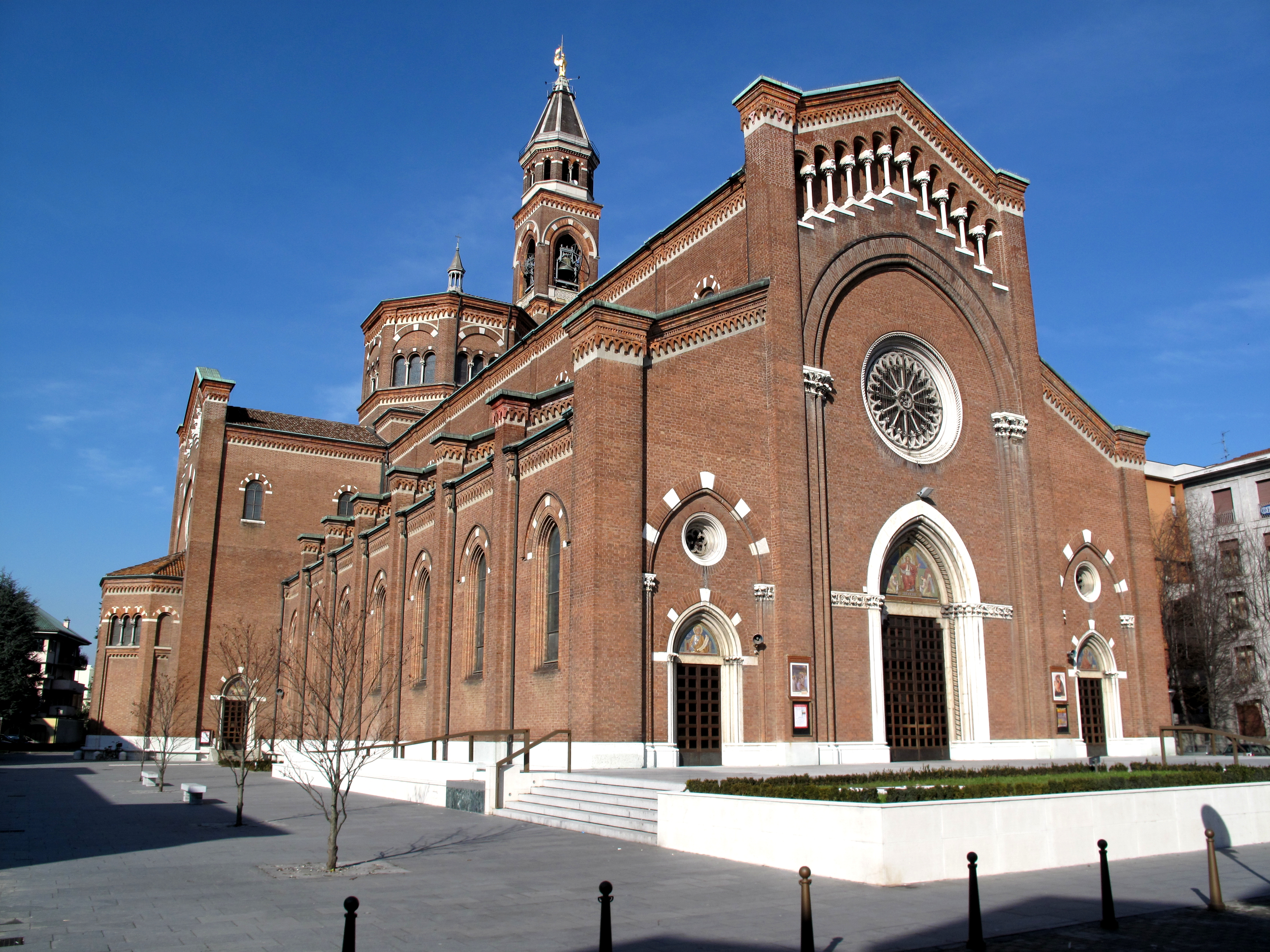 Chiesa Prepositurale of Lissone (MI)